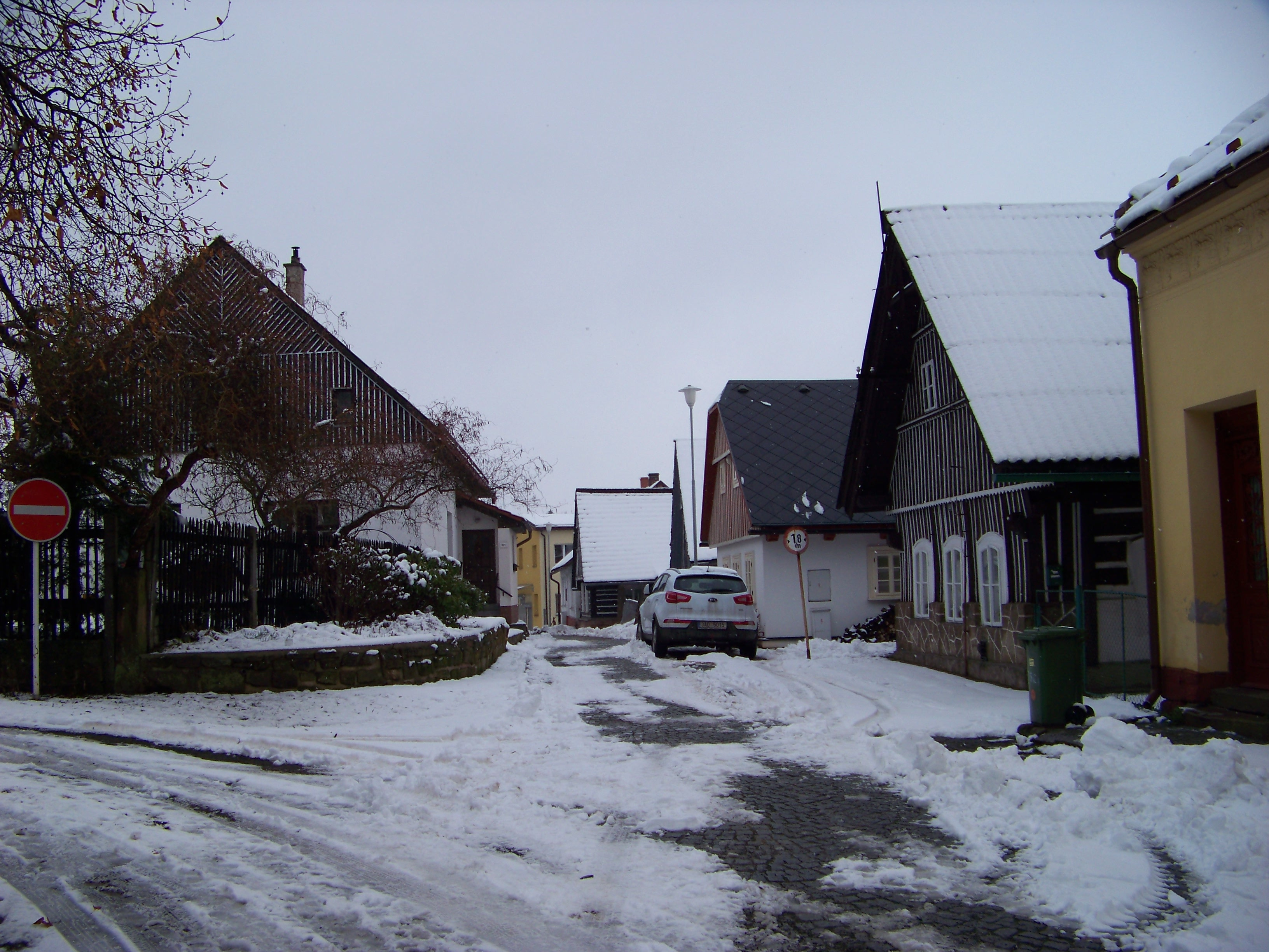 Lomnice nad Popelkou, Semily District, Liberec Region, Czech Republic. Karlovské náměstí 257, 253, 252. - OpenStreetMap (Info)